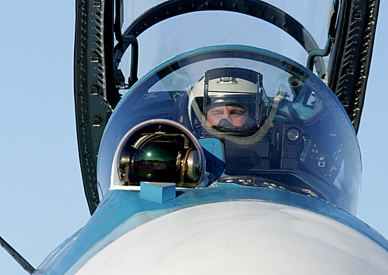 The 279th separate naval fighter regiment (Murmansk Region)